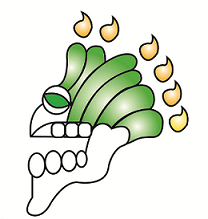 GLIFO MALINALCO